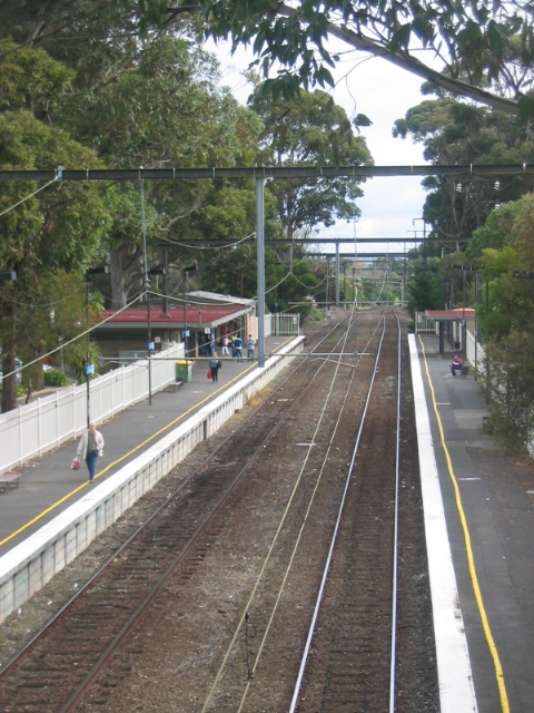 View of Mount Waverley station. Picture taken by myself.